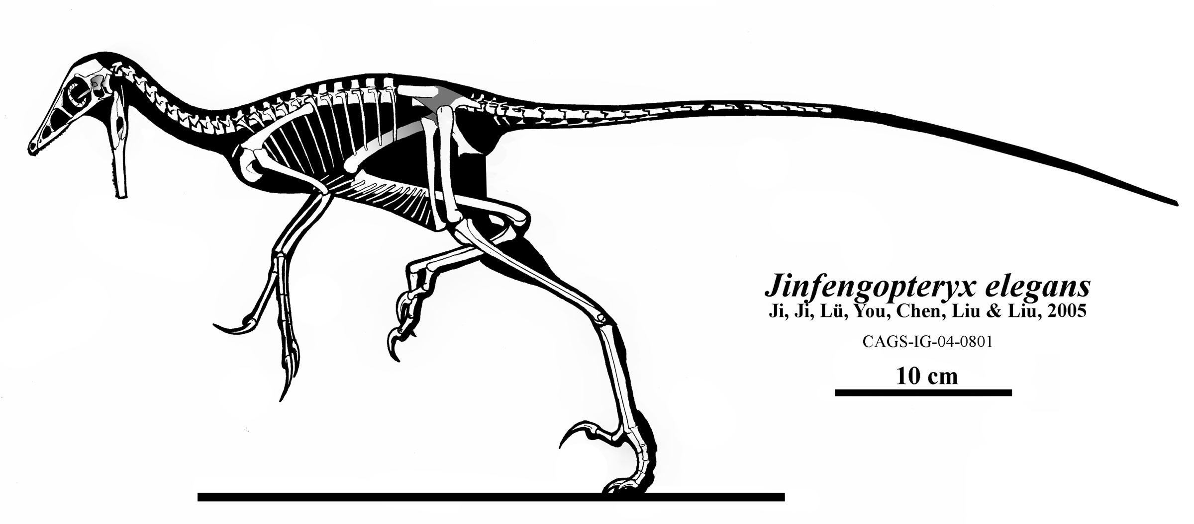 Skeletal reconstruction of Jinfengopteryx elegans.